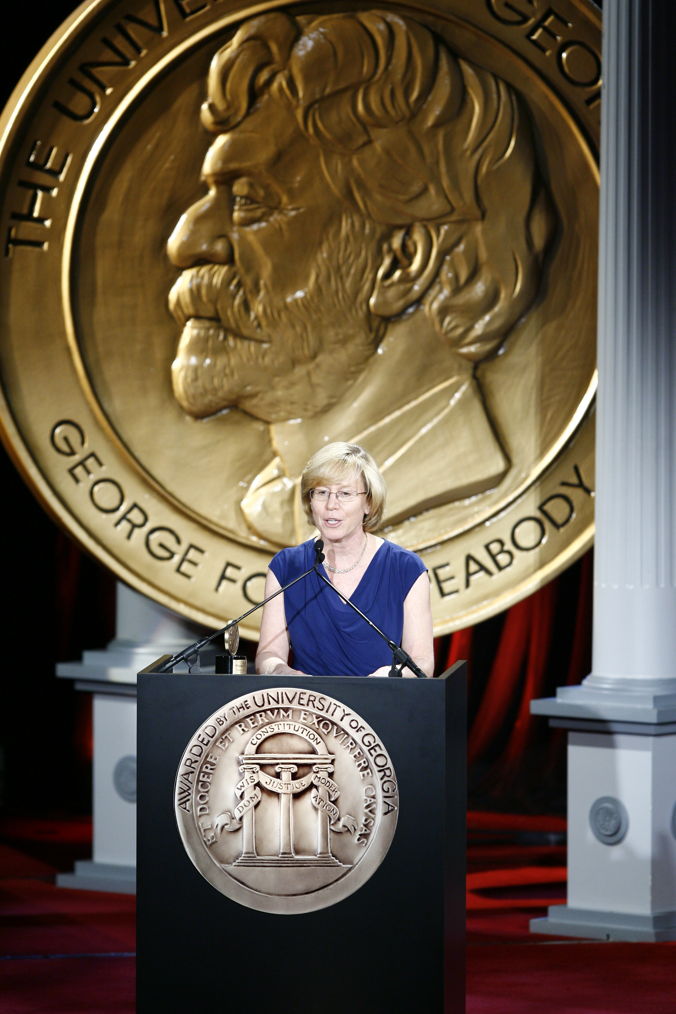 PHOTO CREDIT: ANDERS KRUSBERG / PEABODY AWARDS Candy Altman 69th Annual Peabody Awards Luncheon Waldorf=Astoria Hotel New York, NY USA May 17, 2010